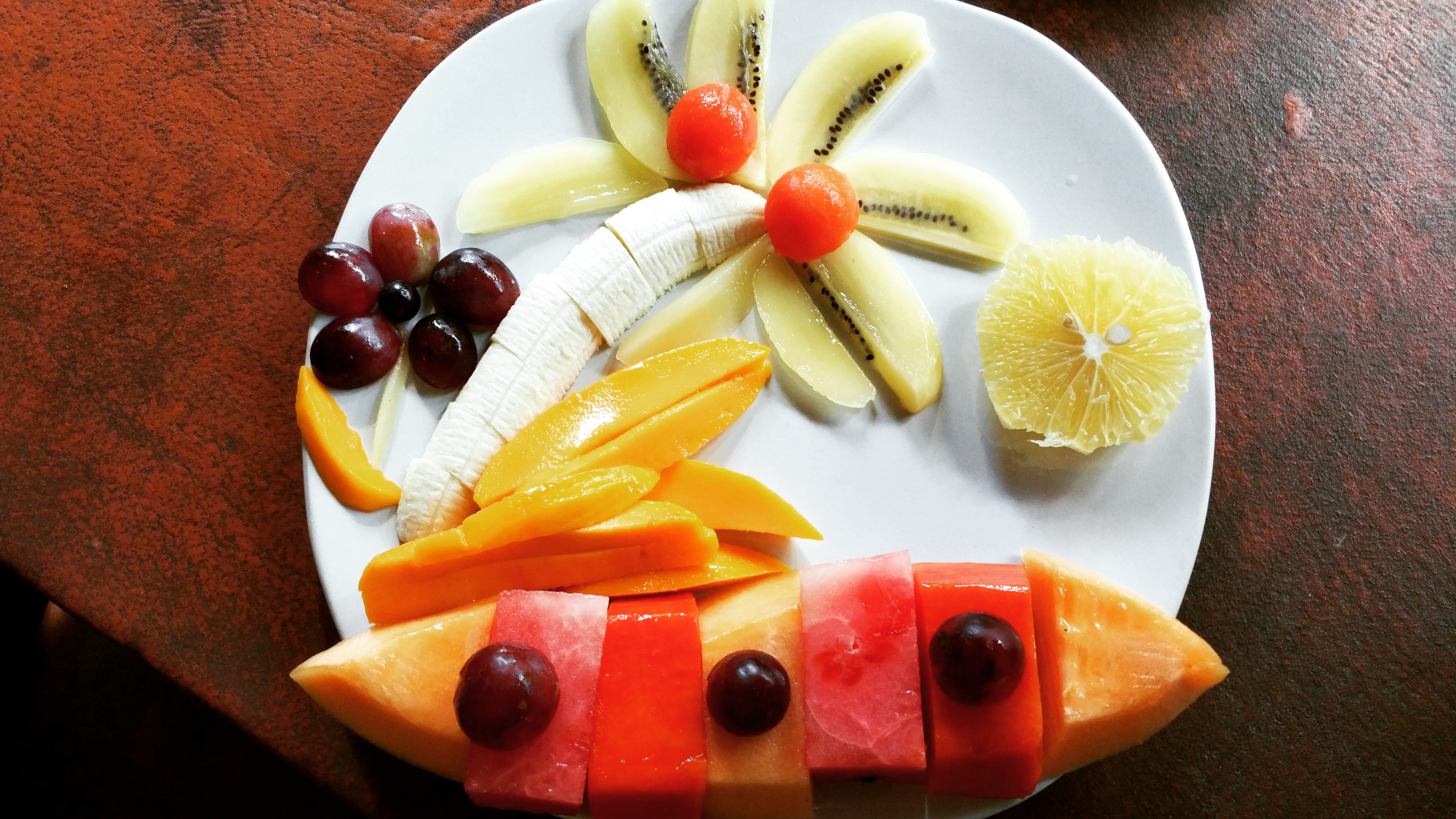 A fruit salad arranged as a boat (papaya, cantaloupe, watermelon), coconut tree (banana, kiwi, grapes) and sun (orange)